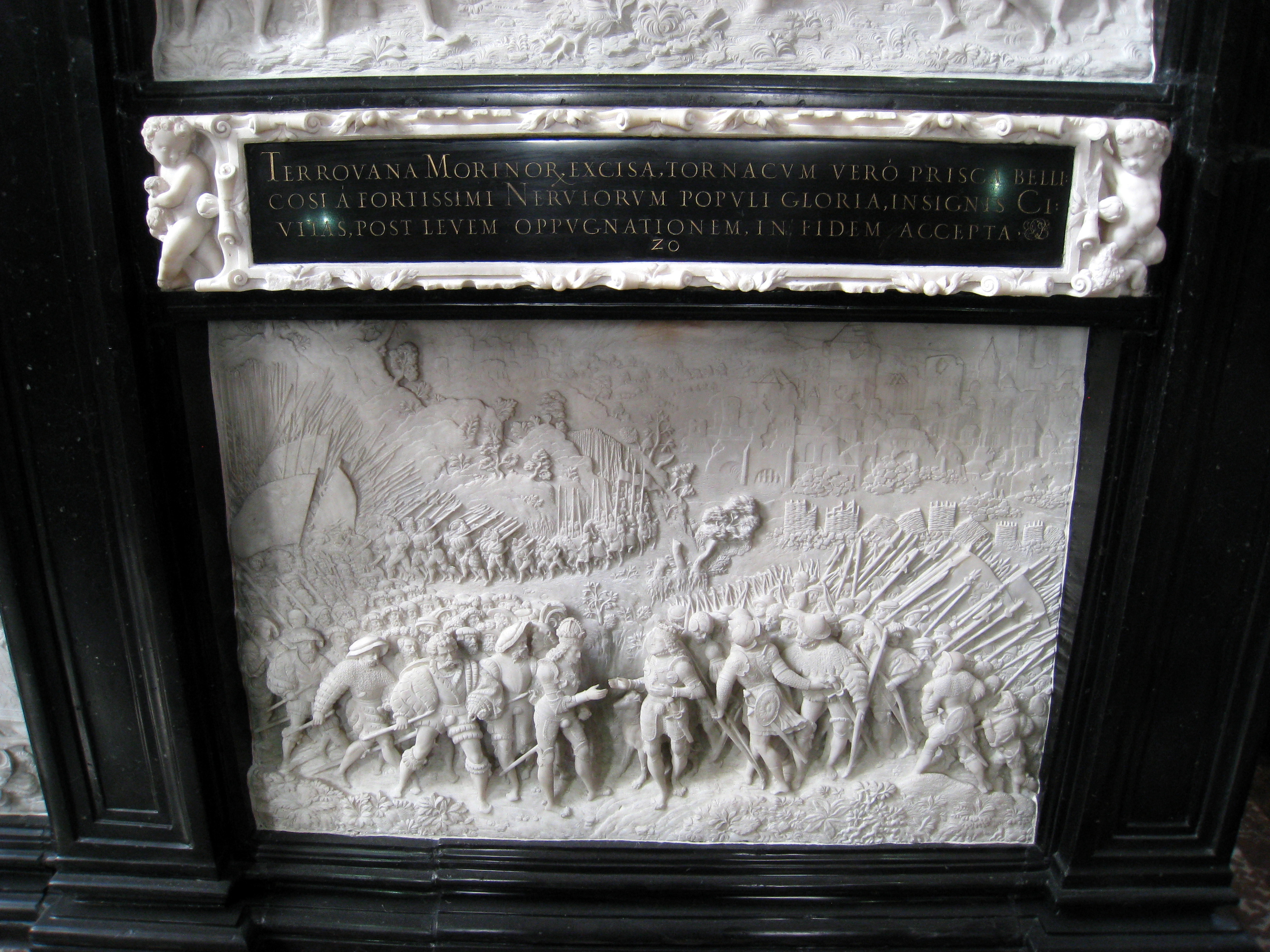 Hofkirche, Innsbruck, Austria - cenotaph of Maximilian I - relief by Alexander Colin based on wood carvings by Albrecht Durer.